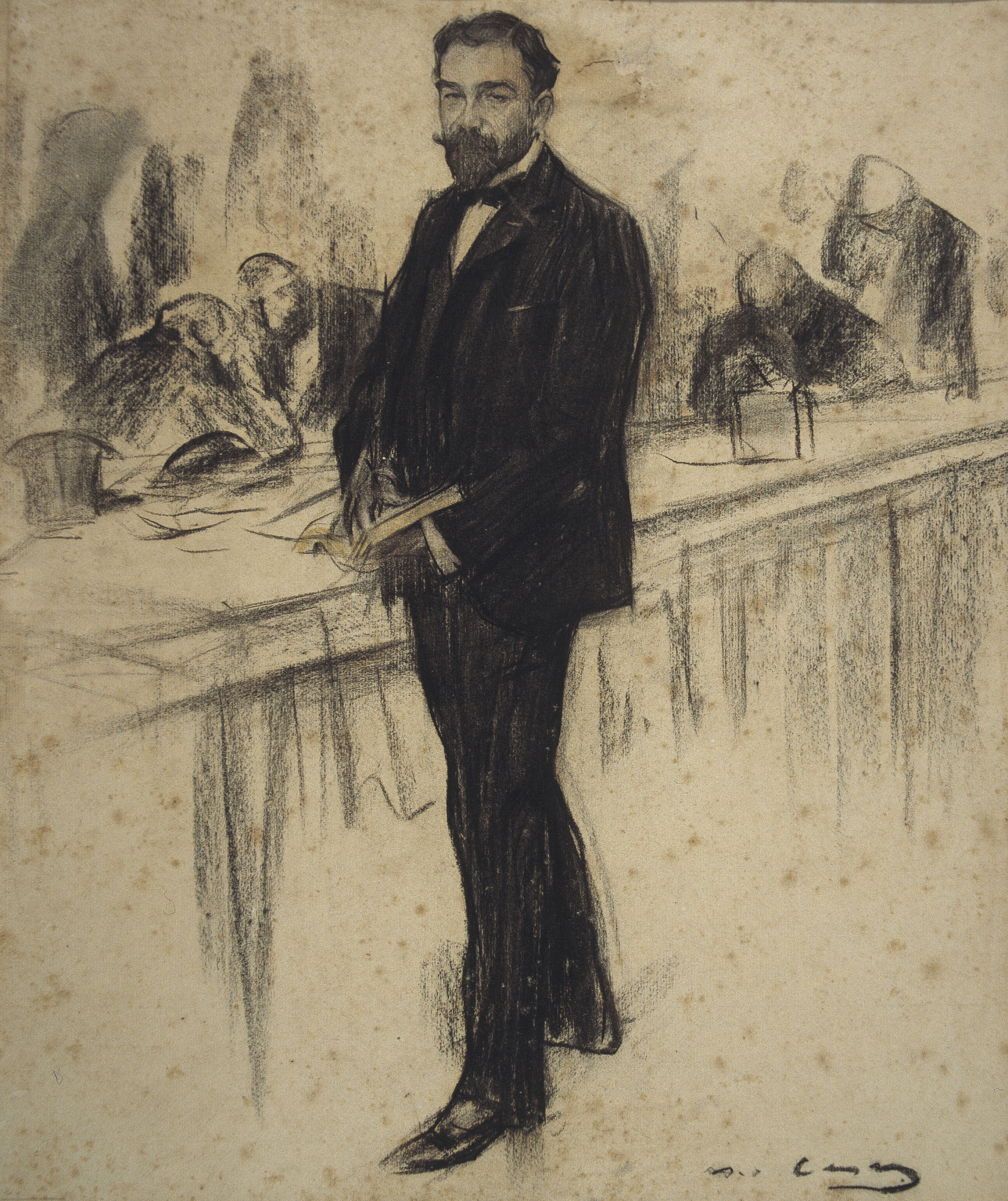 Portrait by Ramon Casas conserved at MNAC in Barcelona. Imagen 002